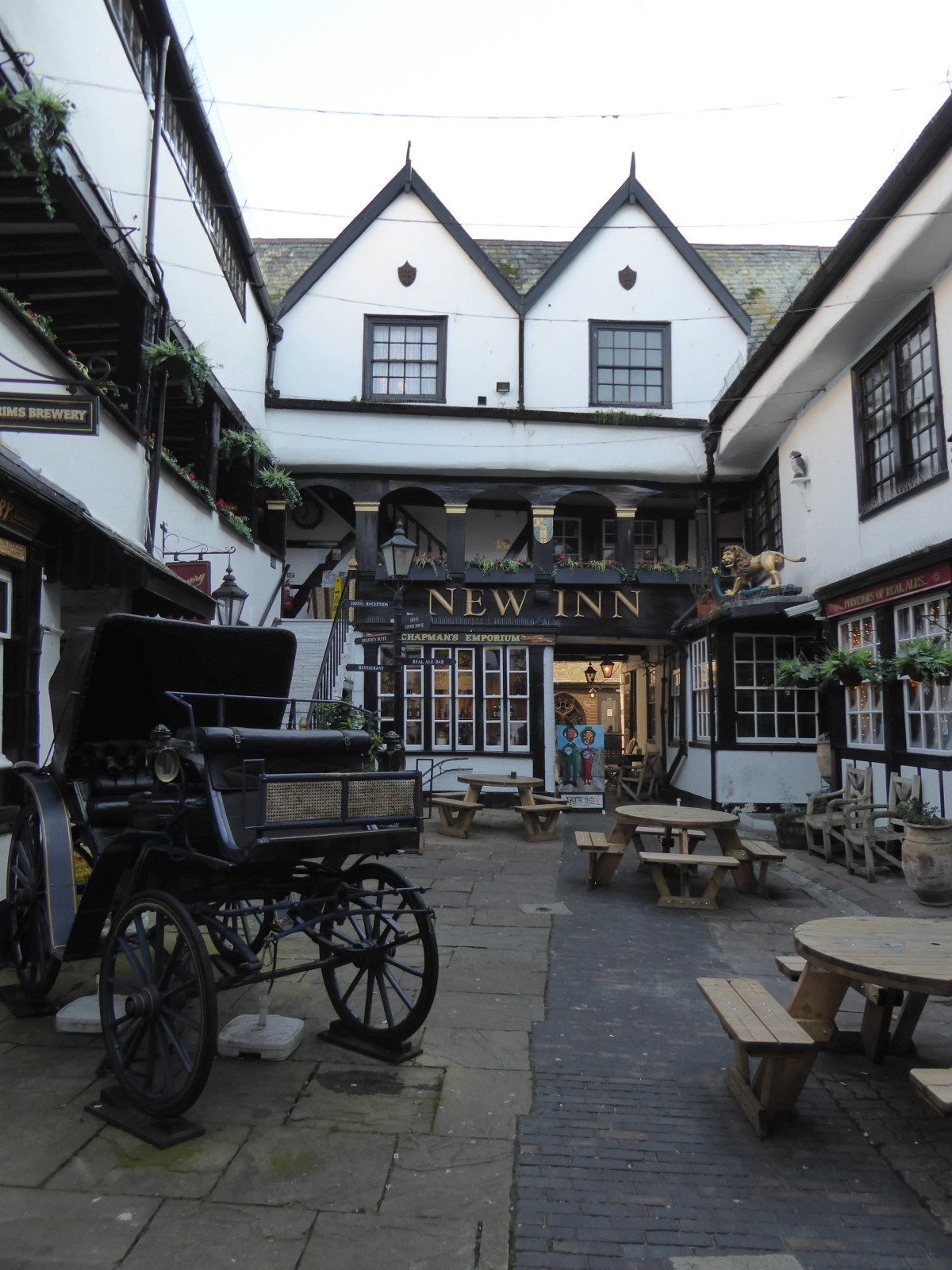 Galleried courtyard of the New Inn, Gloucester